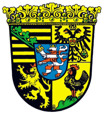 Coat of arms of Thuringia 1933–1945